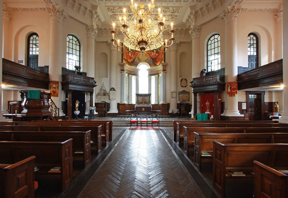 St Paul, Deptford High Street, London SE8 - East end.